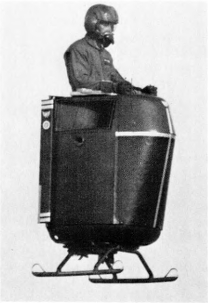 A TURBINE POWERED INDIVIDUAL lift device designed to take off vertically and enable a man to fly for 30 minutes at speeds up to 60 miles per hour has been successfully flown in a series of free flights by military personnel. It is known as the WASP II (short for Williams Aerial Systems Platform). The WASP II was considered as a candidate individual lift device by the Army, and the Infantry Board